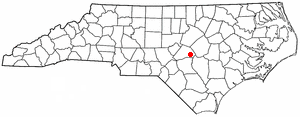 Category:North Carolina Dot Maps